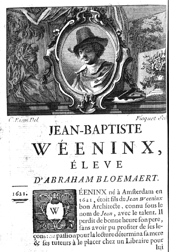 Book 2 of 4-volume painter biographies by Jean-Baptiste Descamps